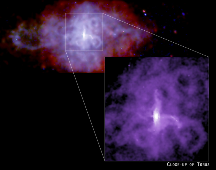 X-ray image of pulsar 3C58 (Chandra X-ray Observatory)